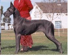 A blue great dane is being stacked at a show.